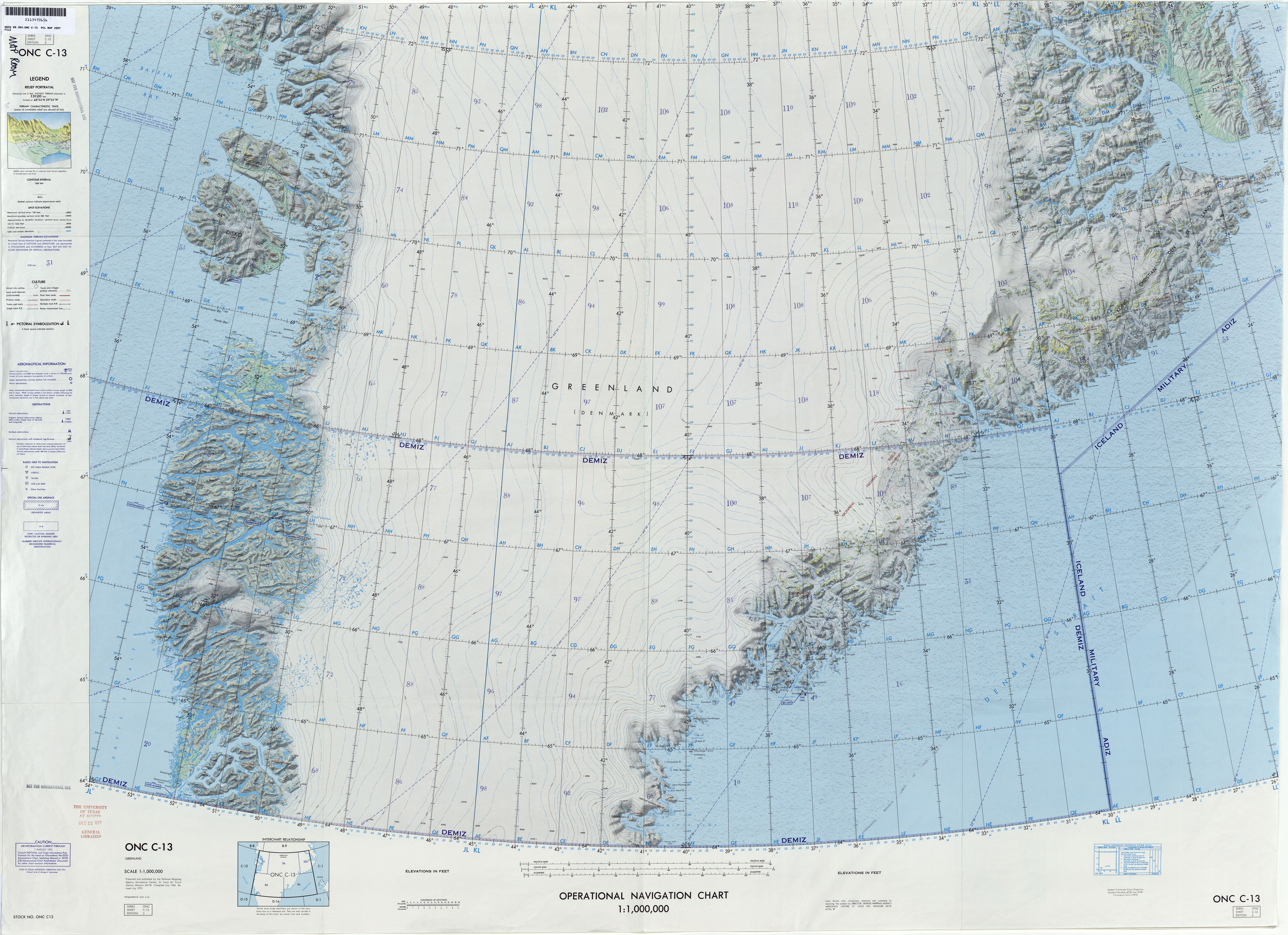 1:1,000,000 scale Operational Navigation Chart, Sheet C-13, 3rd edition. Covers Greenland (Denmark). Lambert Conformal Conic Projection. Standard Parallels 65 20N and 70 40N. Center longitude 40W.